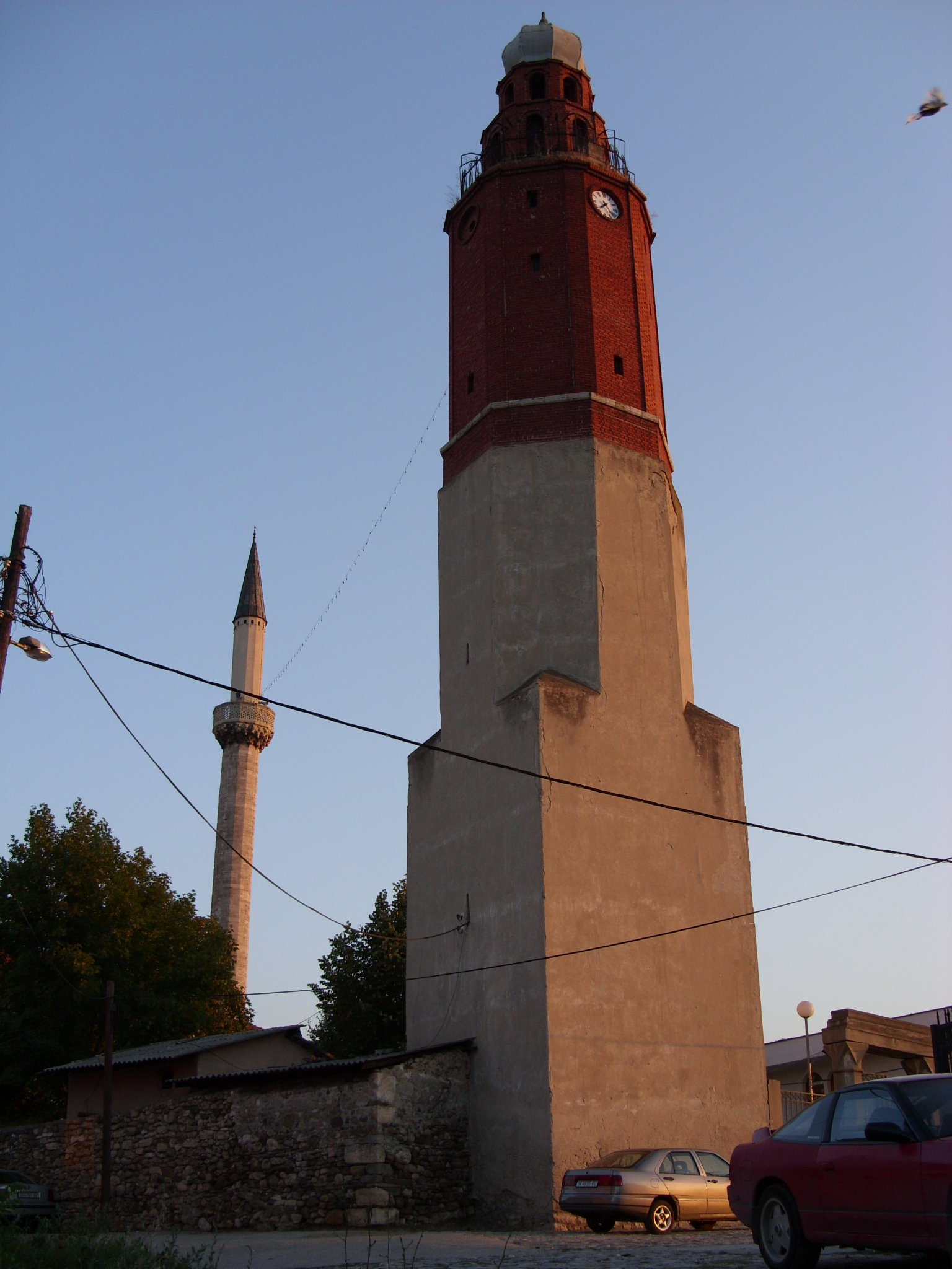 Clock tower in Skopje, Macedonia. Hornjoserbsce: Časnikowa wěža w Skopju, Makedonska.